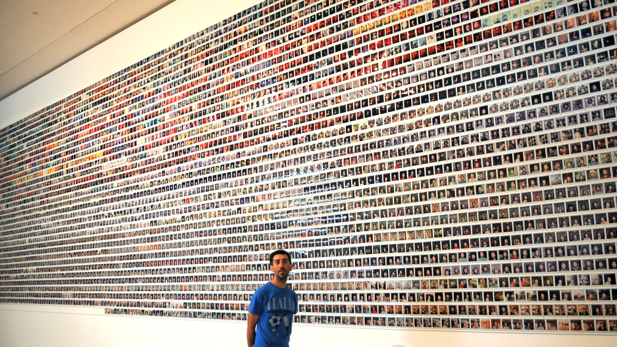 Artist Marc Tasman in front of his installation of Polaroid self-portraits taken every day for 3,654 consecutive days, or ten years and one day, from July 24,1999 through July 24, 2009, at the Madison Museum of Contemporary Art (MMoCA), Wisconsin, USA.